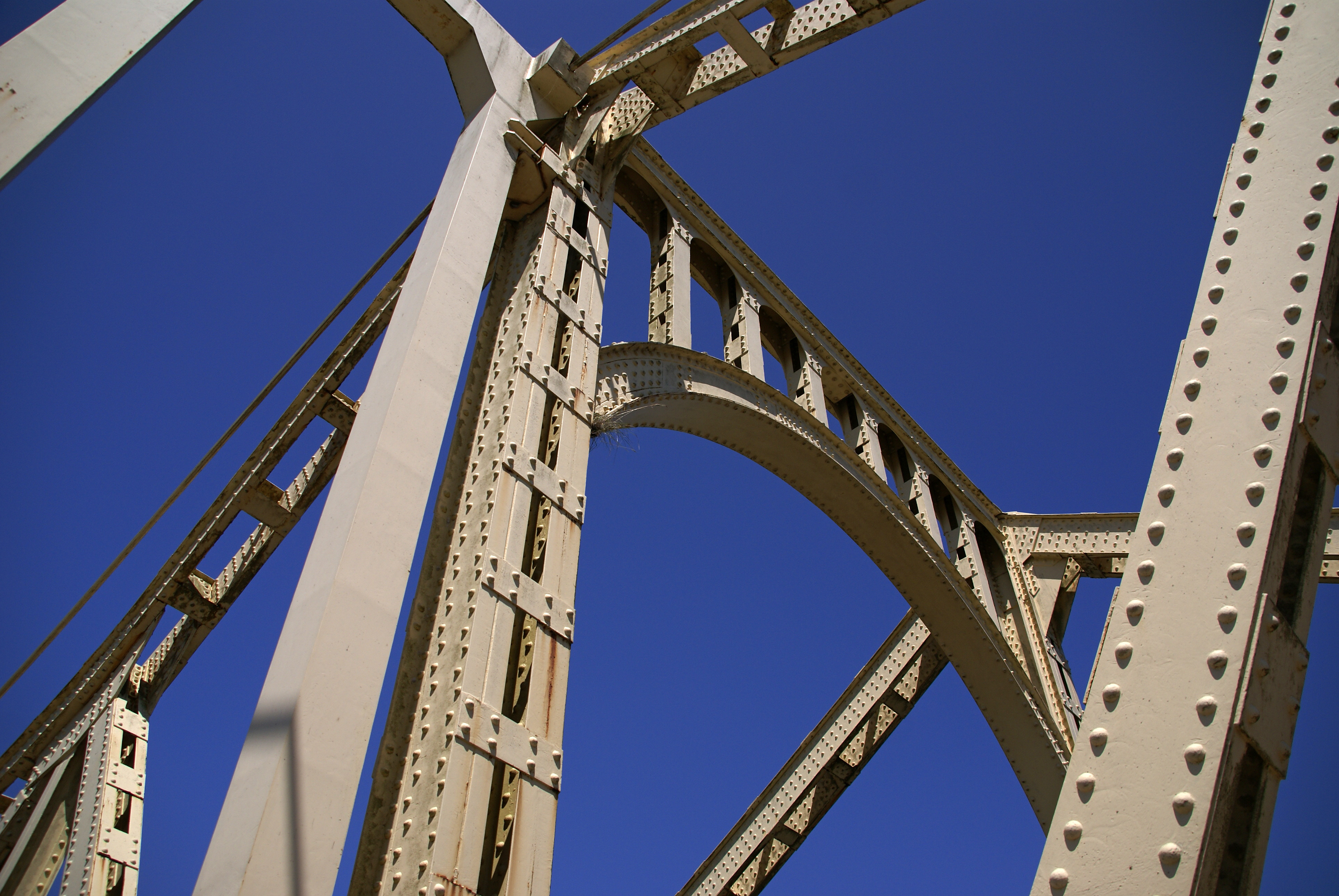 Sango Bridge in Kitakami, Iwate prefecture, Japan